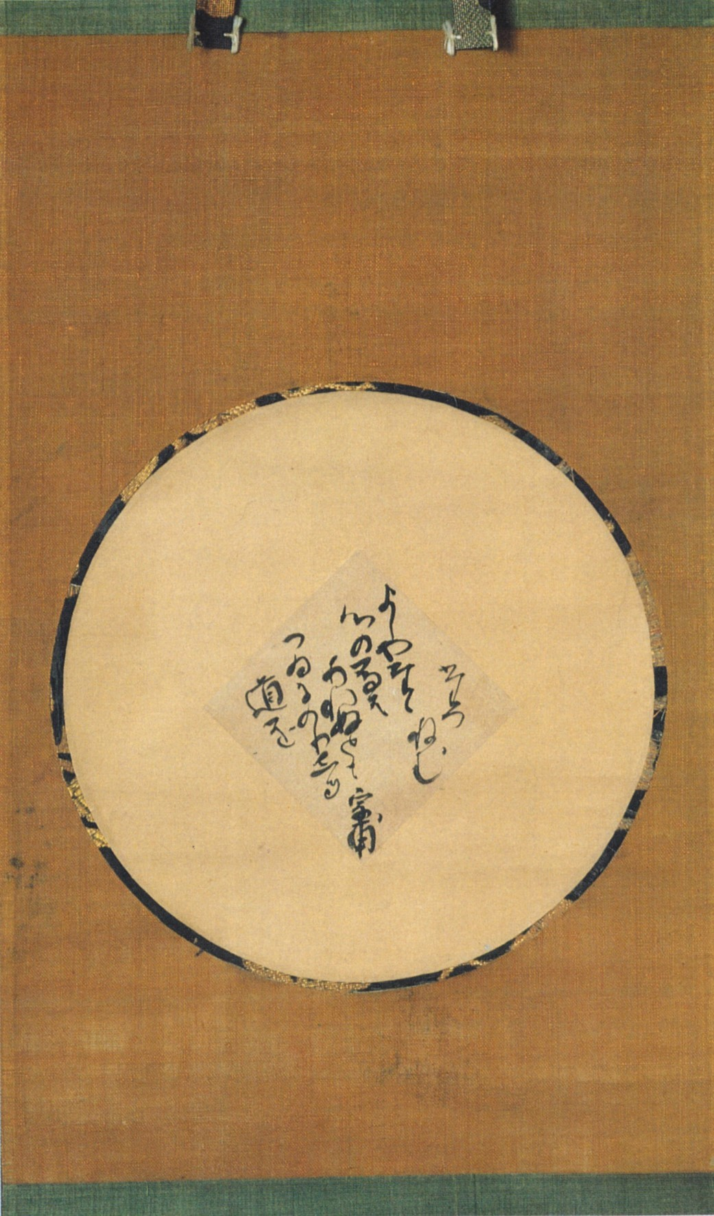 Calligraphy by Kobori Enshu